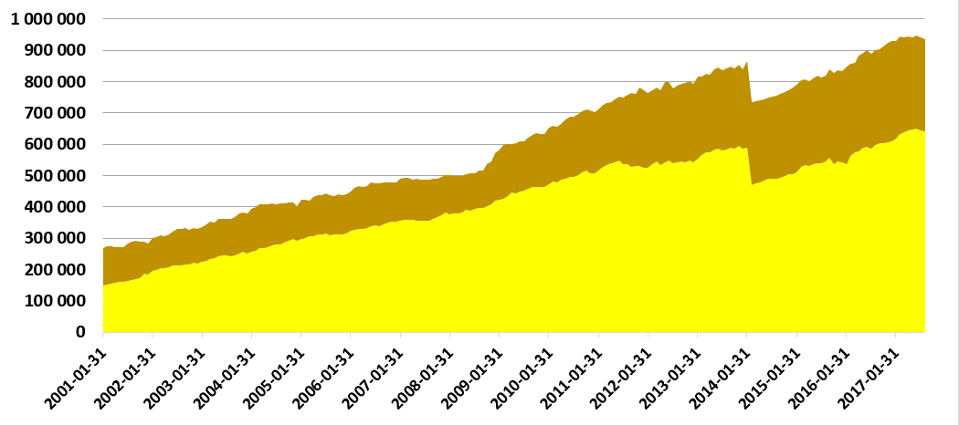 Polish public debt in 1000 000 PLN. Jan 2001 – Aug 2017. Foreign debt Domestic debt